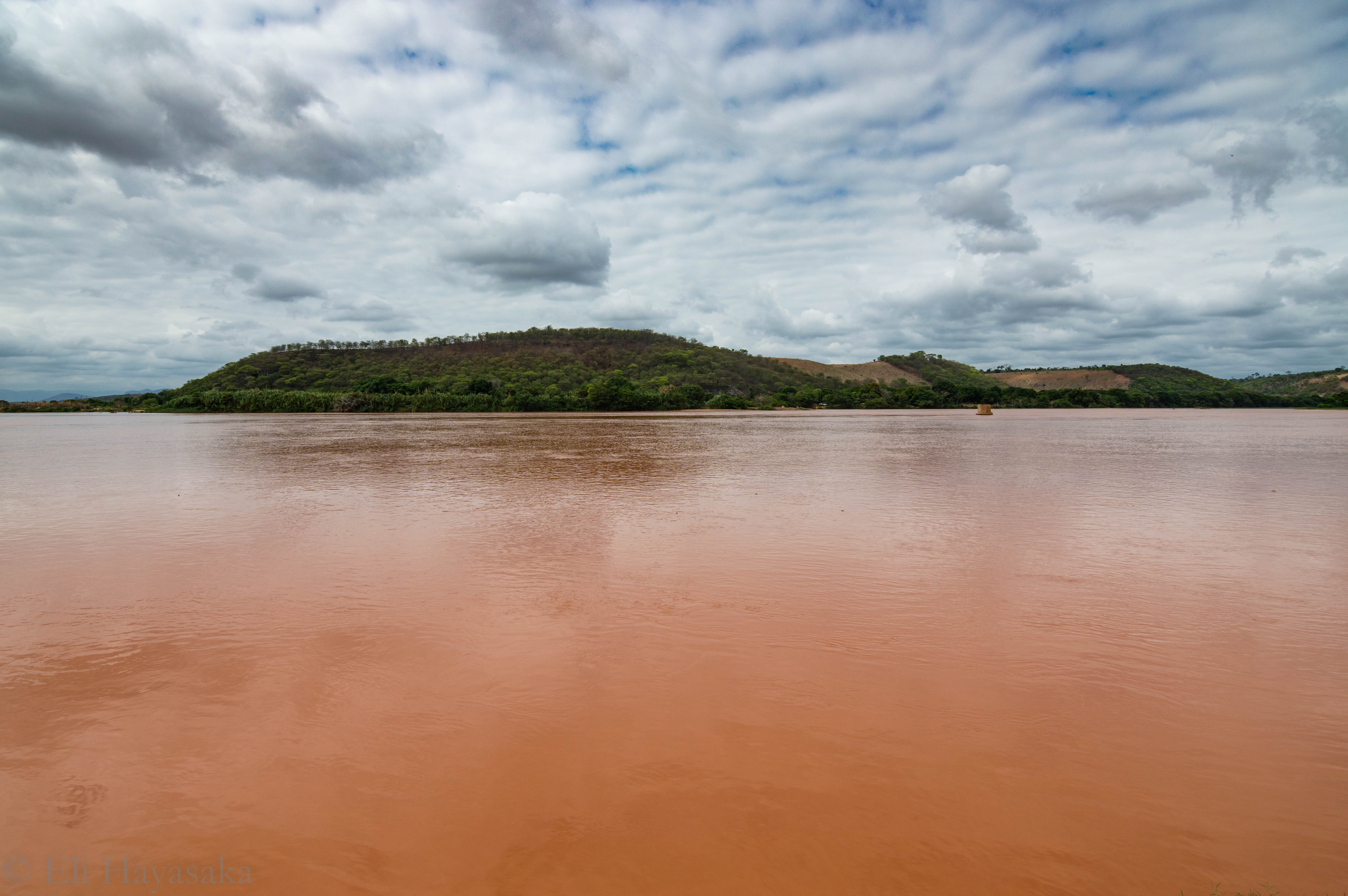 Water of the Doce river in Galileia, Minas Gerais, Brazil, with the mud from the Samarco dam that broke in the city of Mariana on 5 November 2015.